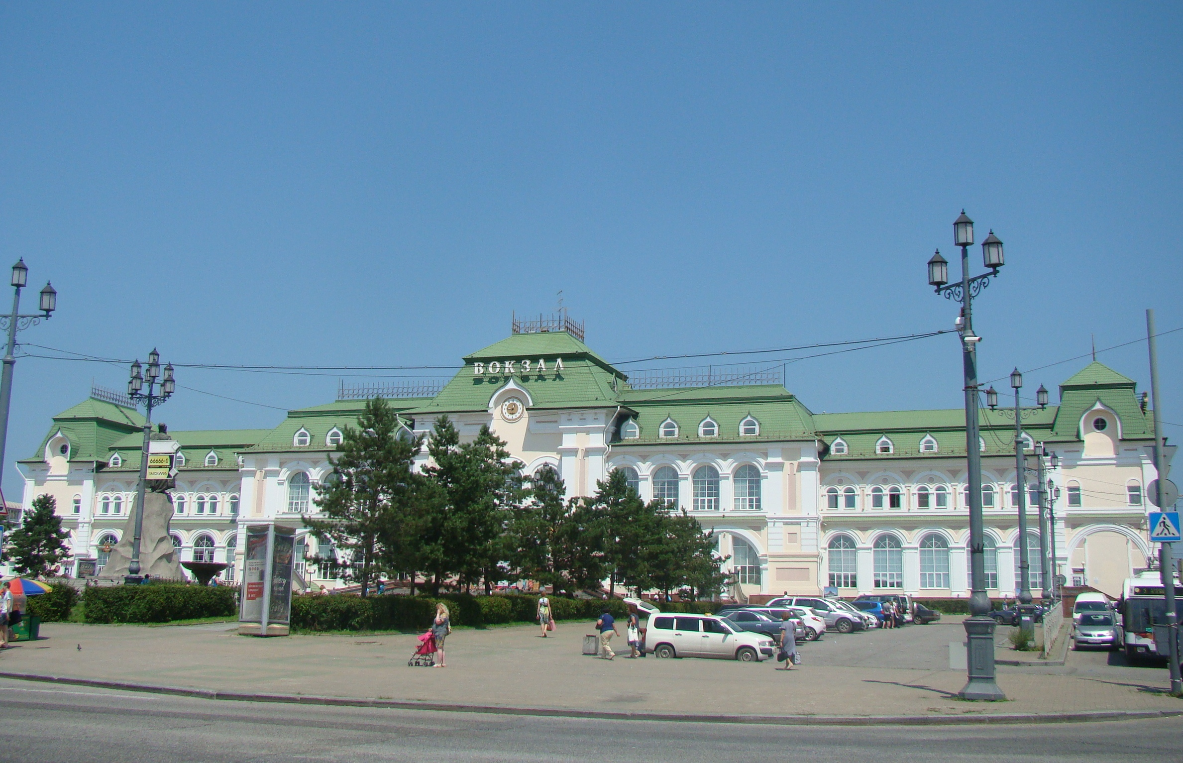 Russia. Khabarovsk. Khabarovsk-1 railway station 2015